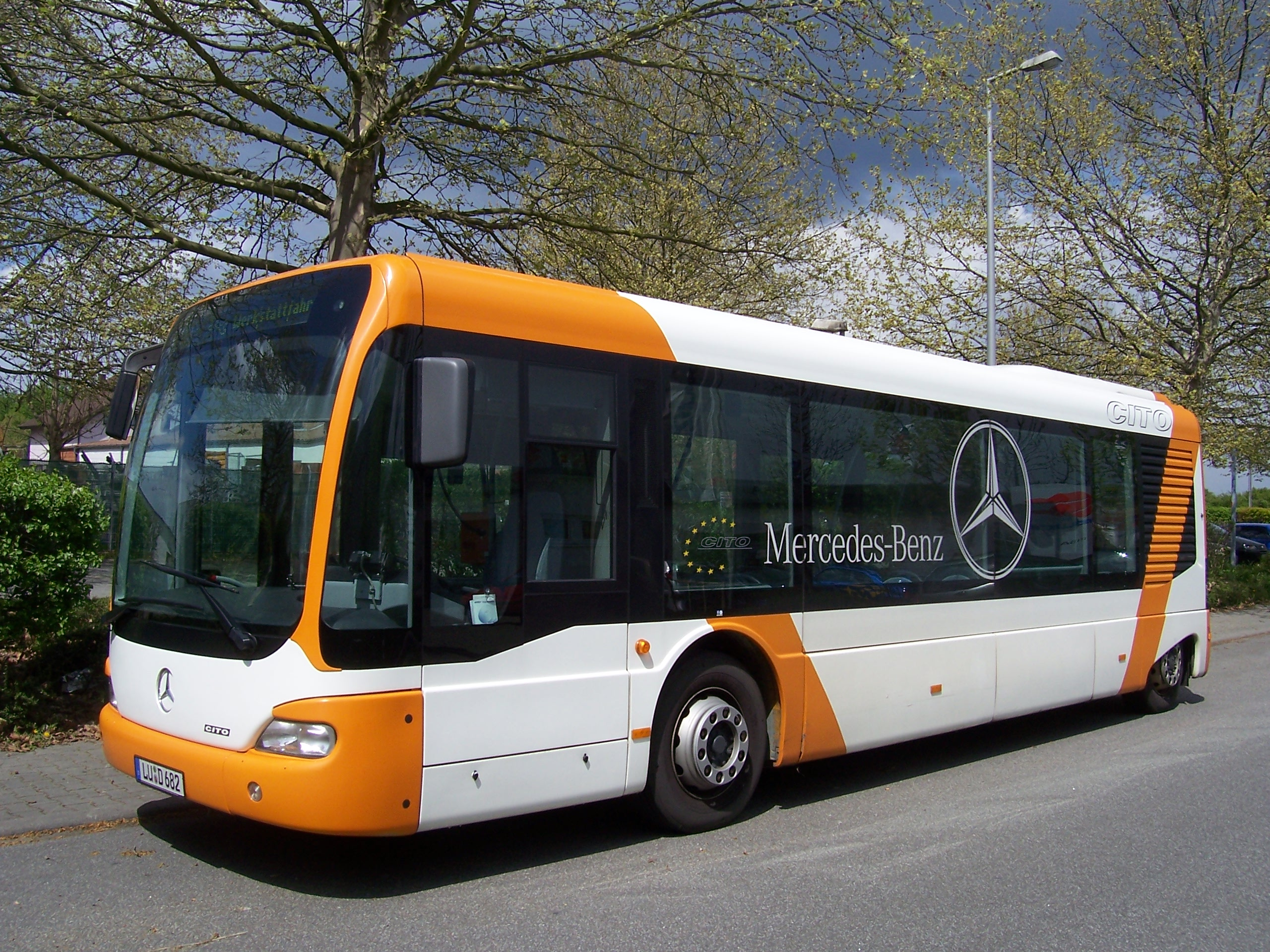 An EvoBus/Mercedes-Benz Cito midibus in Mannheim, Germany